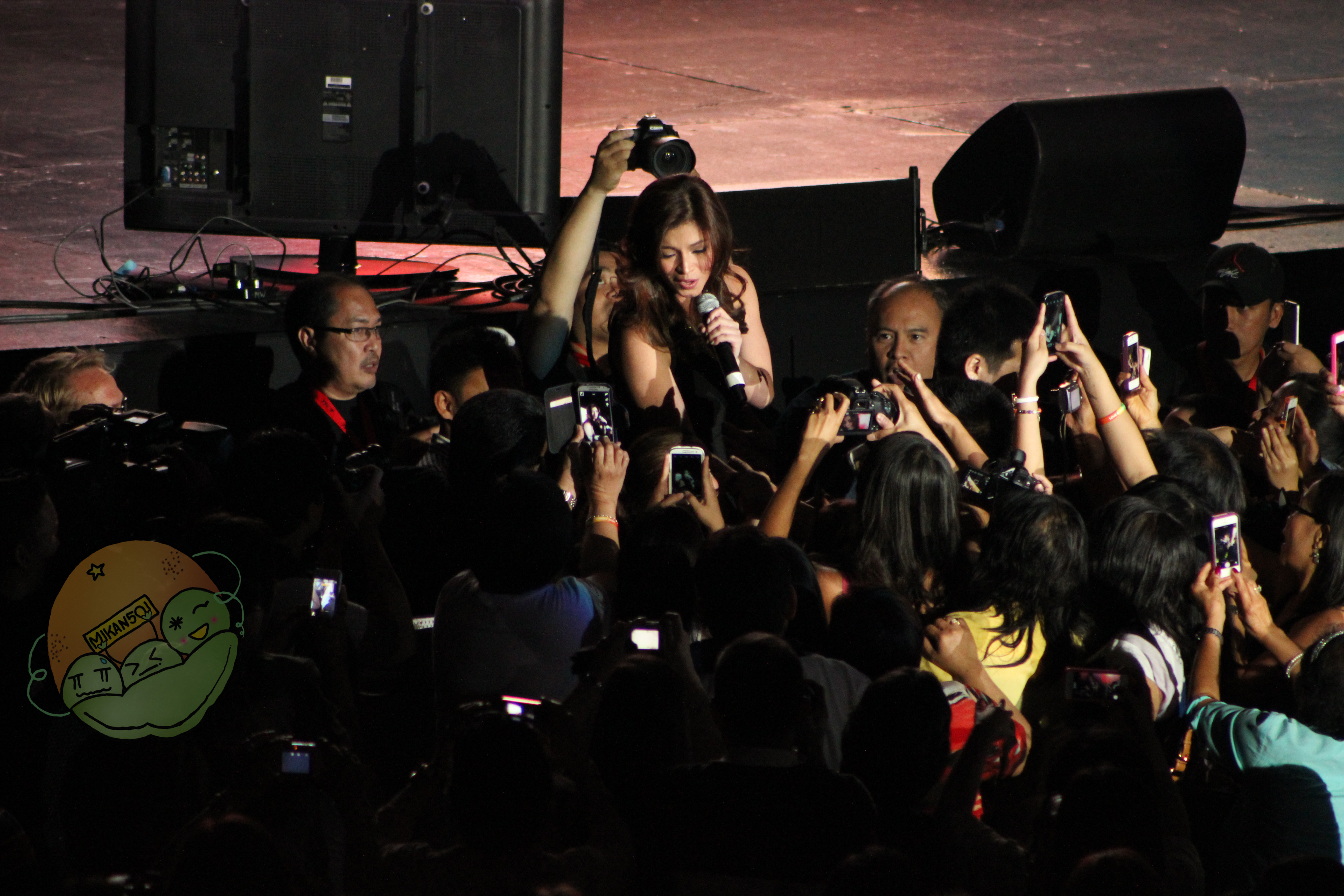 Angel Locsin with the crowd during ABS-CBN's concert tour "One Kapamilya Go" in Toronto, Ontario on June 21, 2014